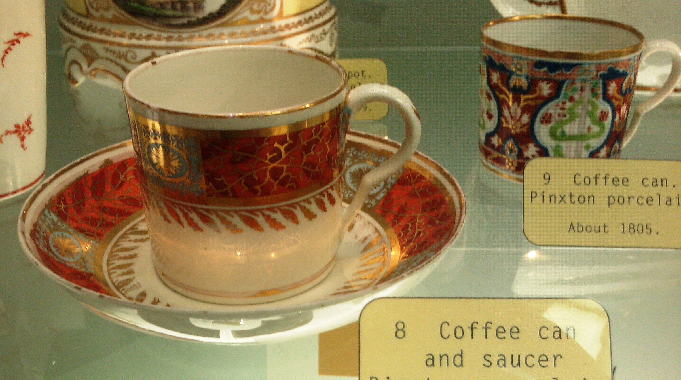 Pinxton Porcelain can (cup_ and saucer. Picture was loaded in readiness for the GLAMWIKI event in April 2011 at Derby Museum and Art Gallery Details are here